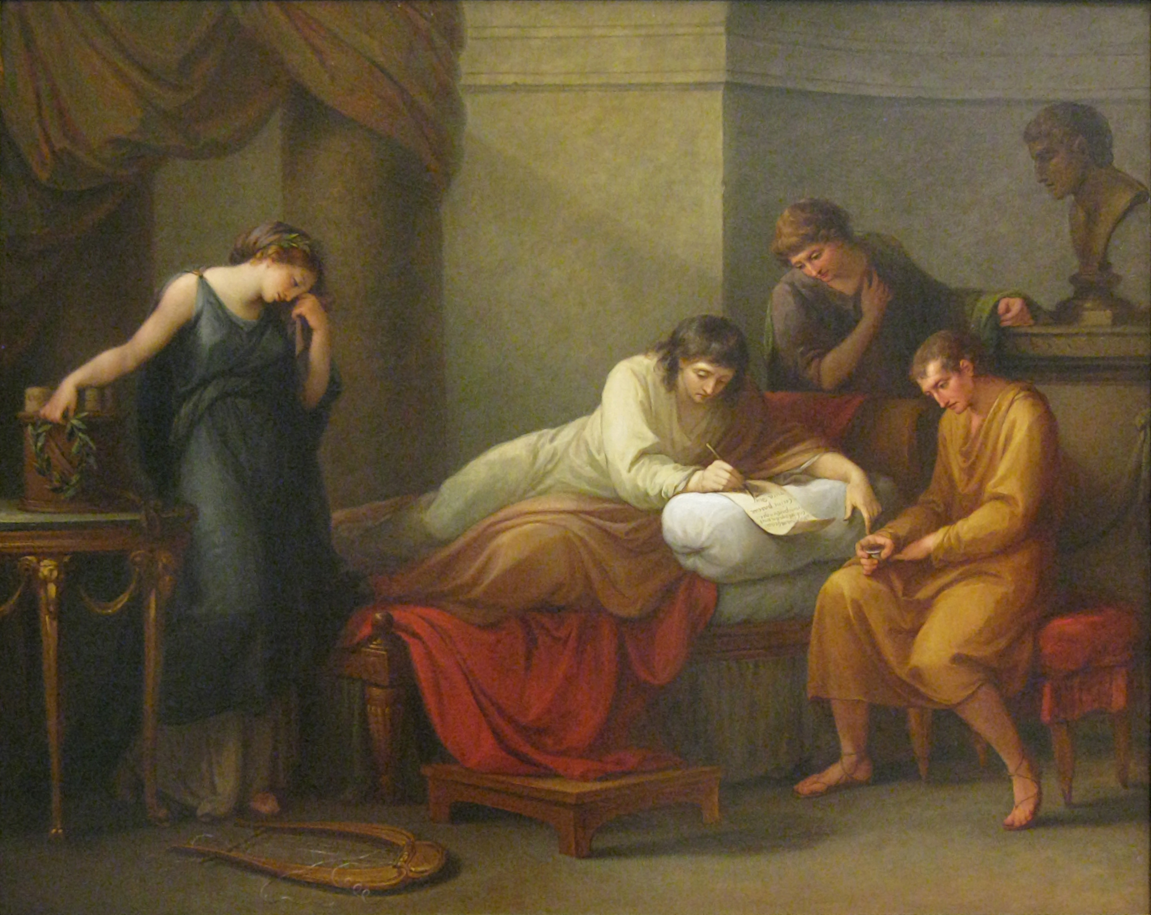 Virgil Writing His Epitaph at Brindisi, 1785, by Angelica Kauffman, in the Carnegie Museum of Art, Pittsburgh